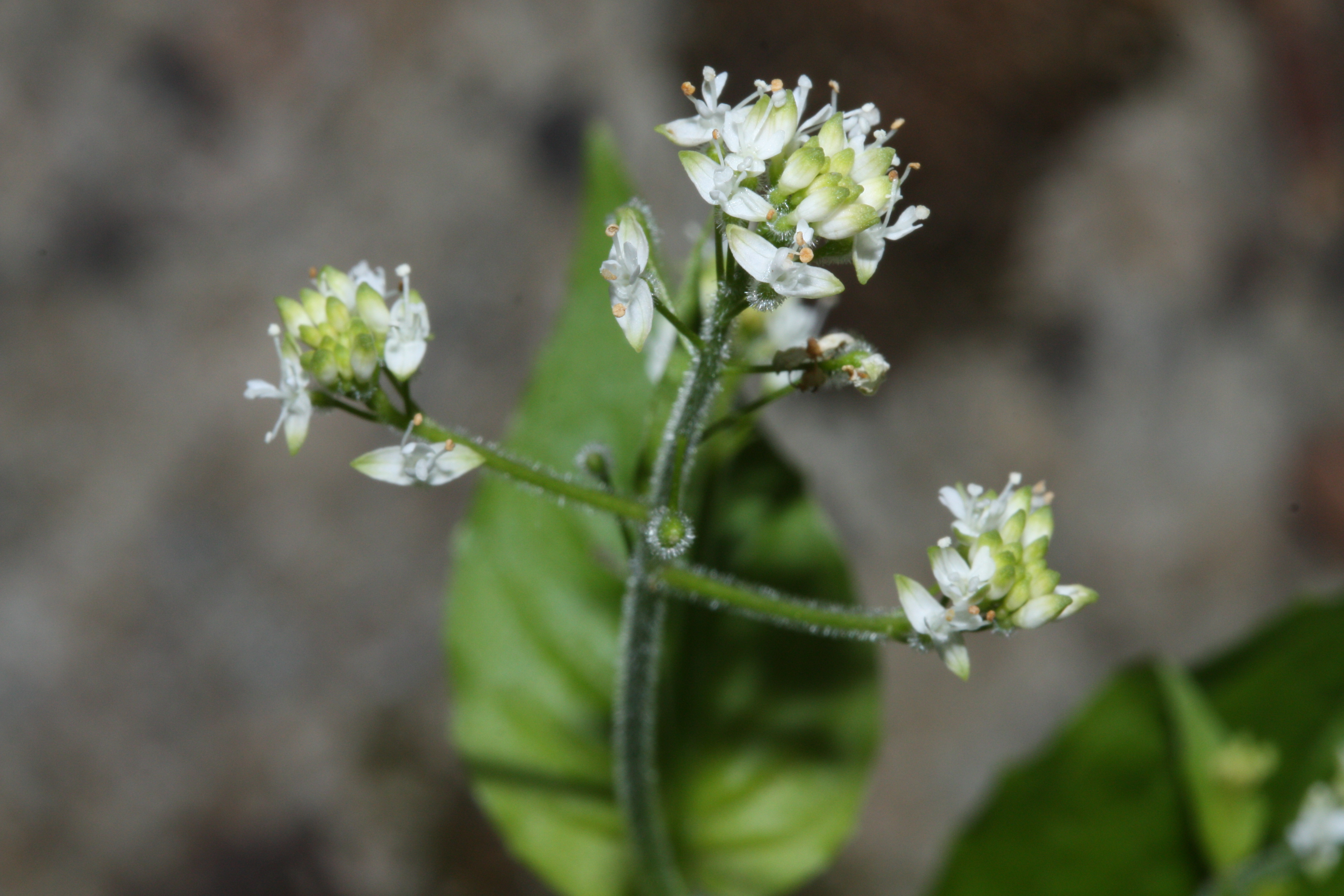 Enchanter's Nightshade; inflorescent of tiny flowers, each with two white sepals 1-2 mm long